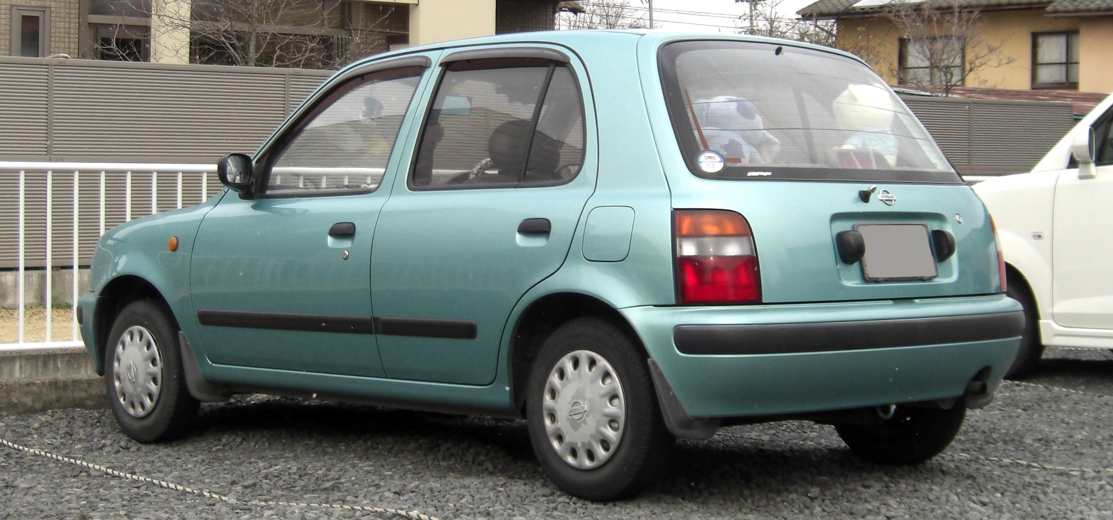 Nissan March